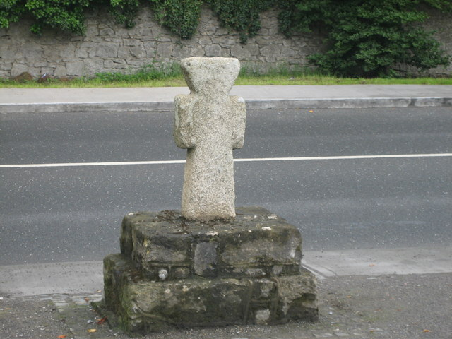 St. Doolagh's Cross At the entrance to the lane leading to St. Doolagh's Church is a 108cm cross made of granite. Its age is not certain but it is believed to be at least a pre-1300 date. OSI maps spell as St. Doolagh while the majority of local usage is St. Doulagh.